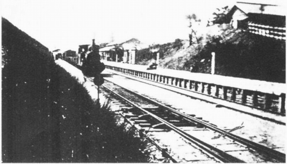 Kamezaki Station, either in August 1912 or at the end of the Meiji era